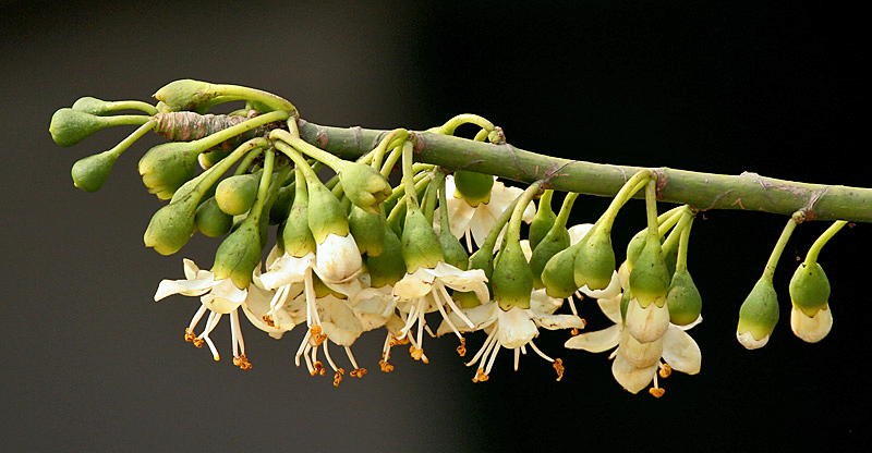 Kapok Ceiba pentandra in Kolkata, West Bengal, India.